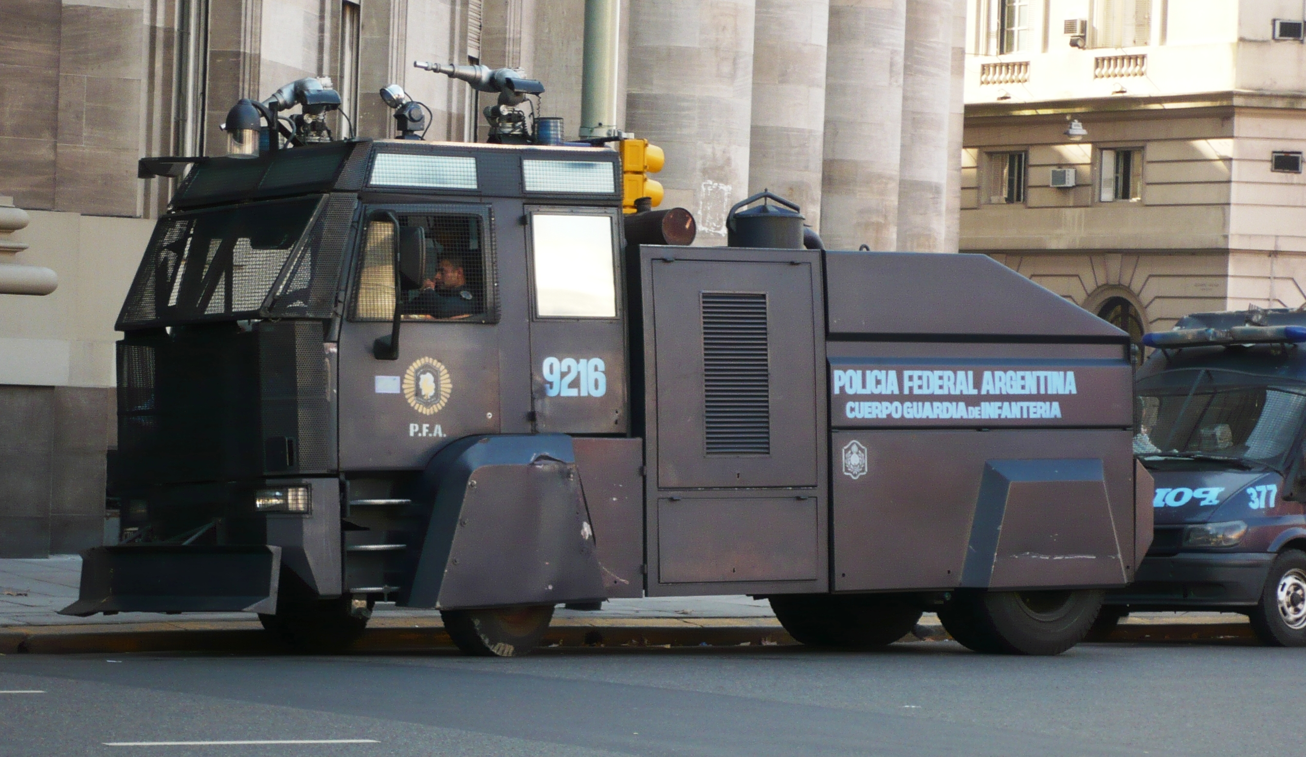 Vehicle of the Policía Federal Argentina (Argentina Federal Police). Buenos Aires, near the Casa Rosada.